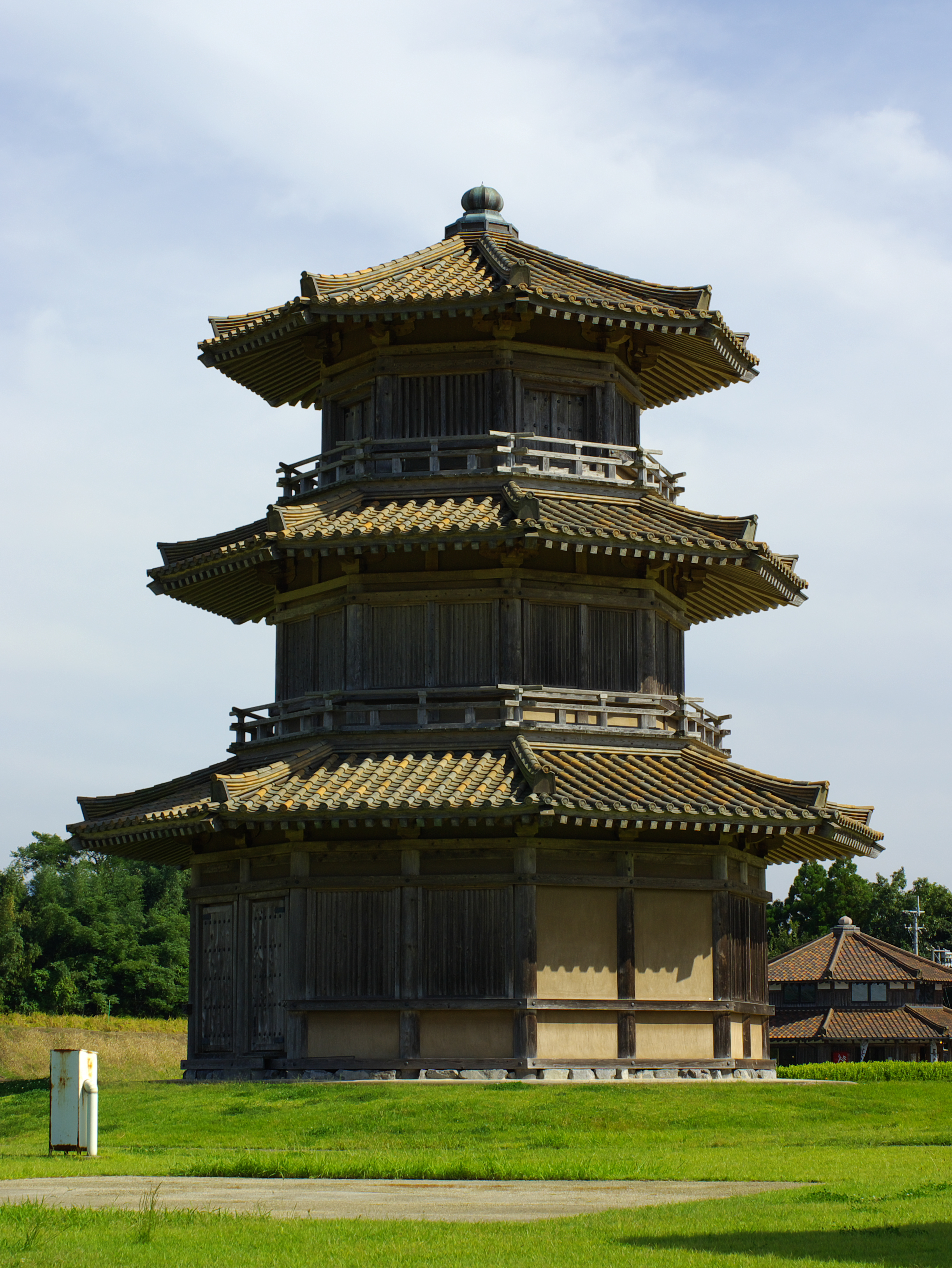 The octagonal lofty building in Kukuchi Castle. Taken from northwest side.